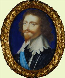 George Villiers, 1st Duke of Buckingham.